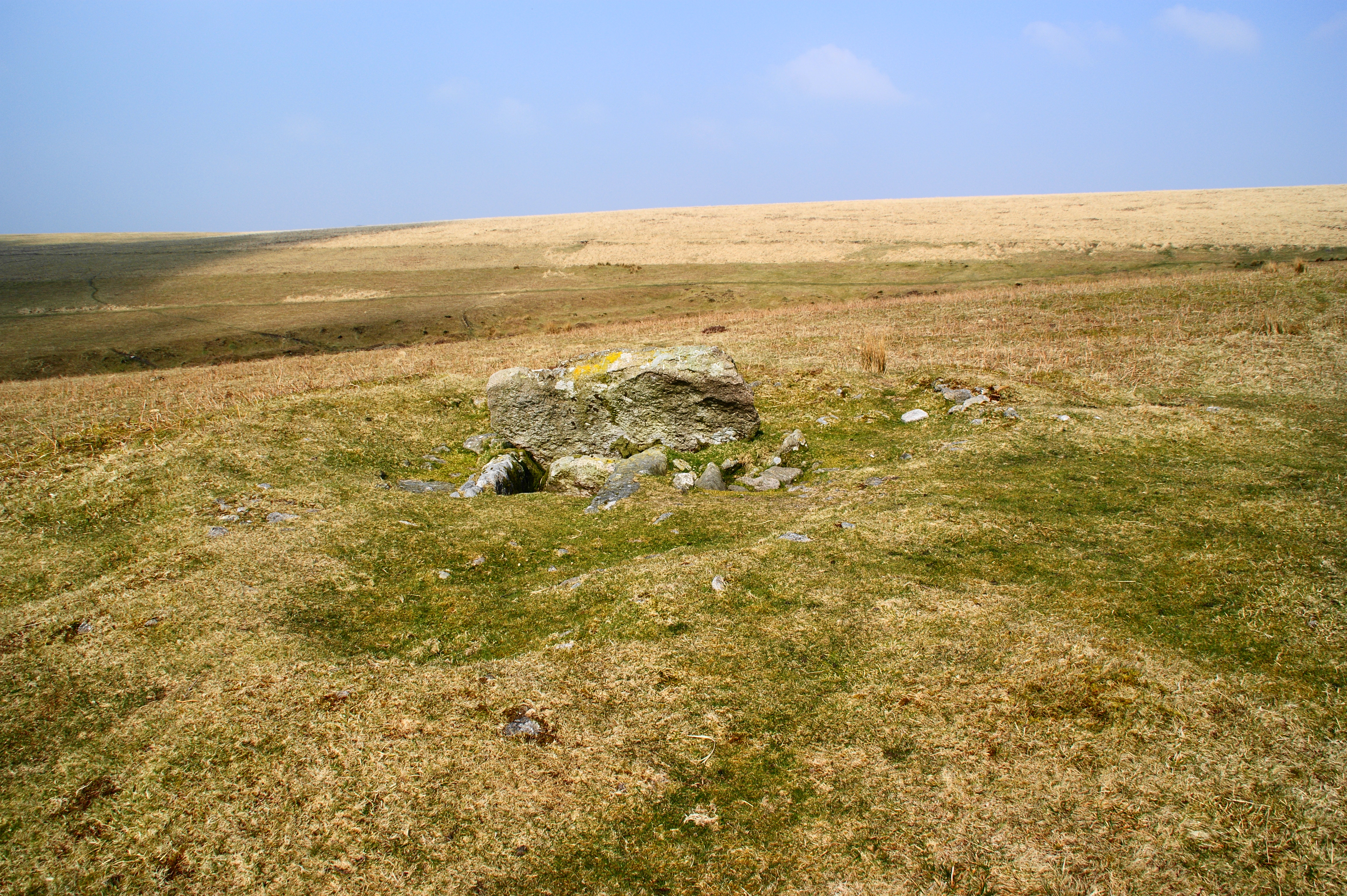 Kistvaen in Drizzlecombe on Dartmoor in South Devon, UK. For detail & further images see File:Drizzlecombe kist 2.JPG, File:Drizzlecombe kist 3.JPG, File:Drizzlecombe kist 4.JPG, File:Drizzlecombe kist 5.JPG & File:Drizzlecombe kist 6.JPG.